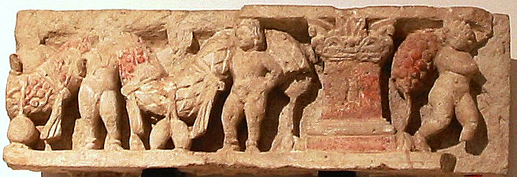 Cupids and garlands. Guimet Museum. Personal photograph 2006.